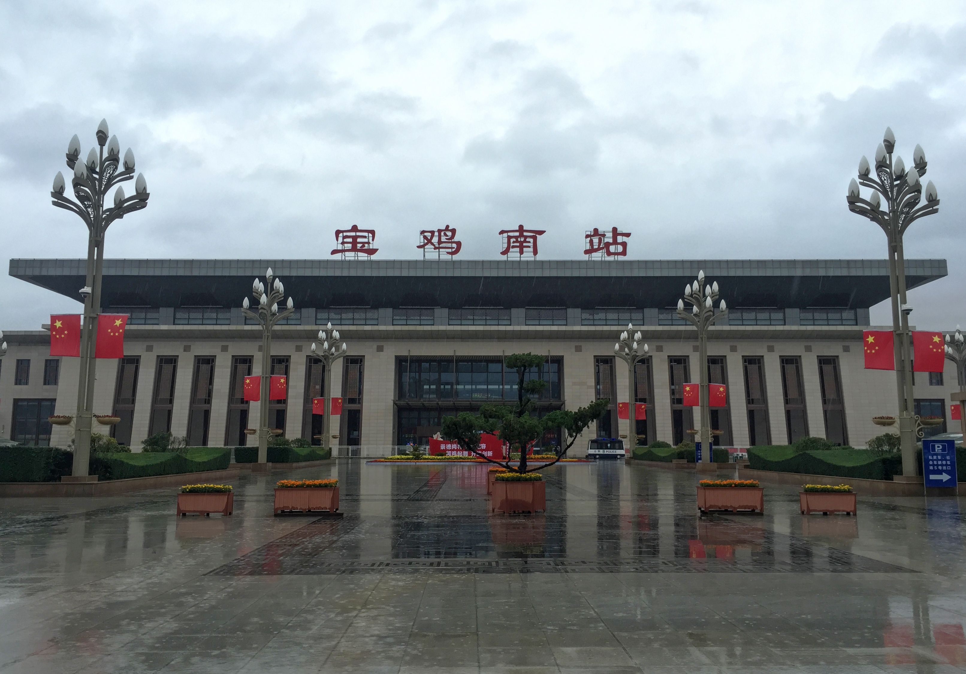 During the National Day holiday, national flags can be seen anywhere.